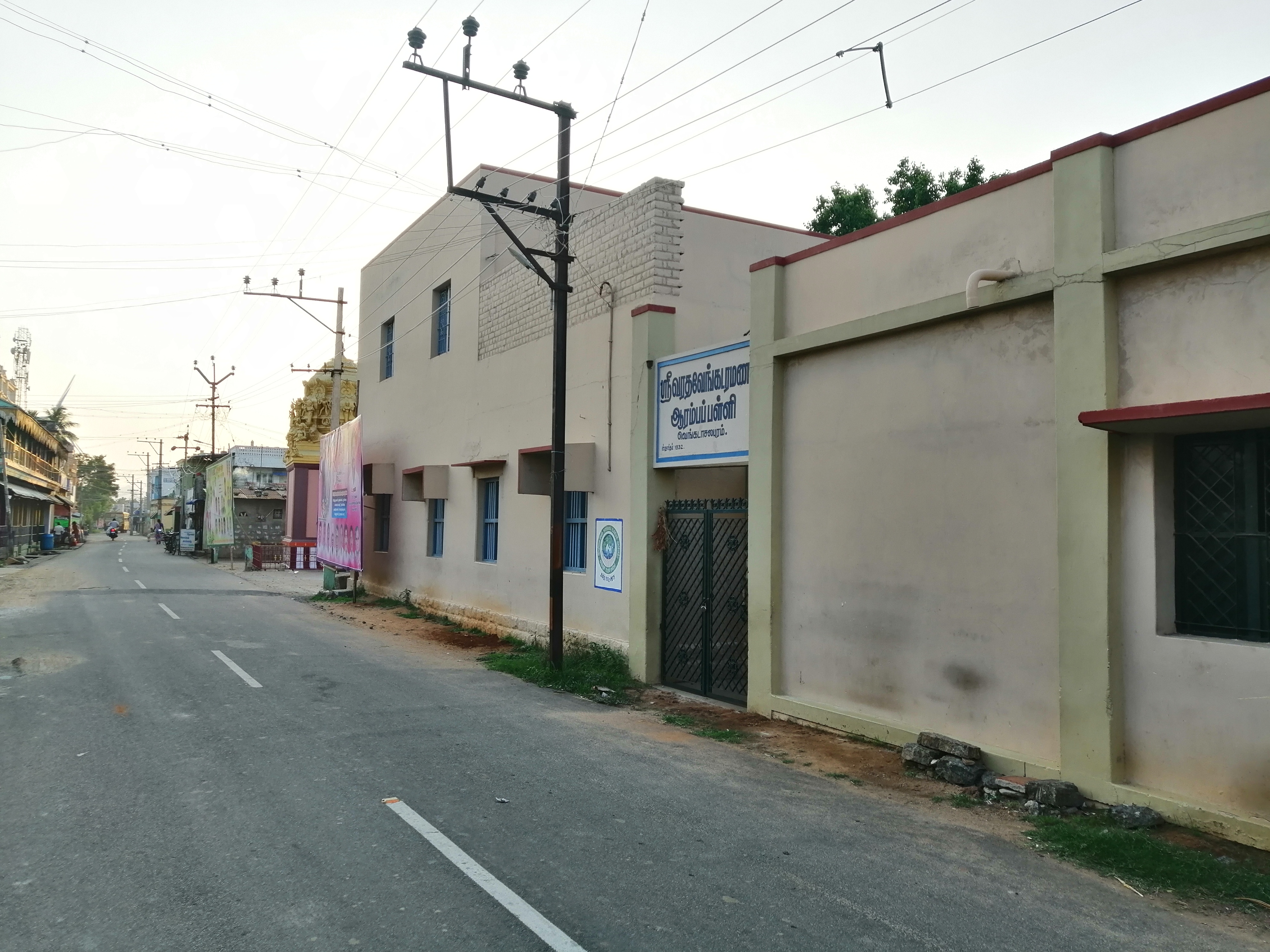 Roadside entrance of the village elementary school